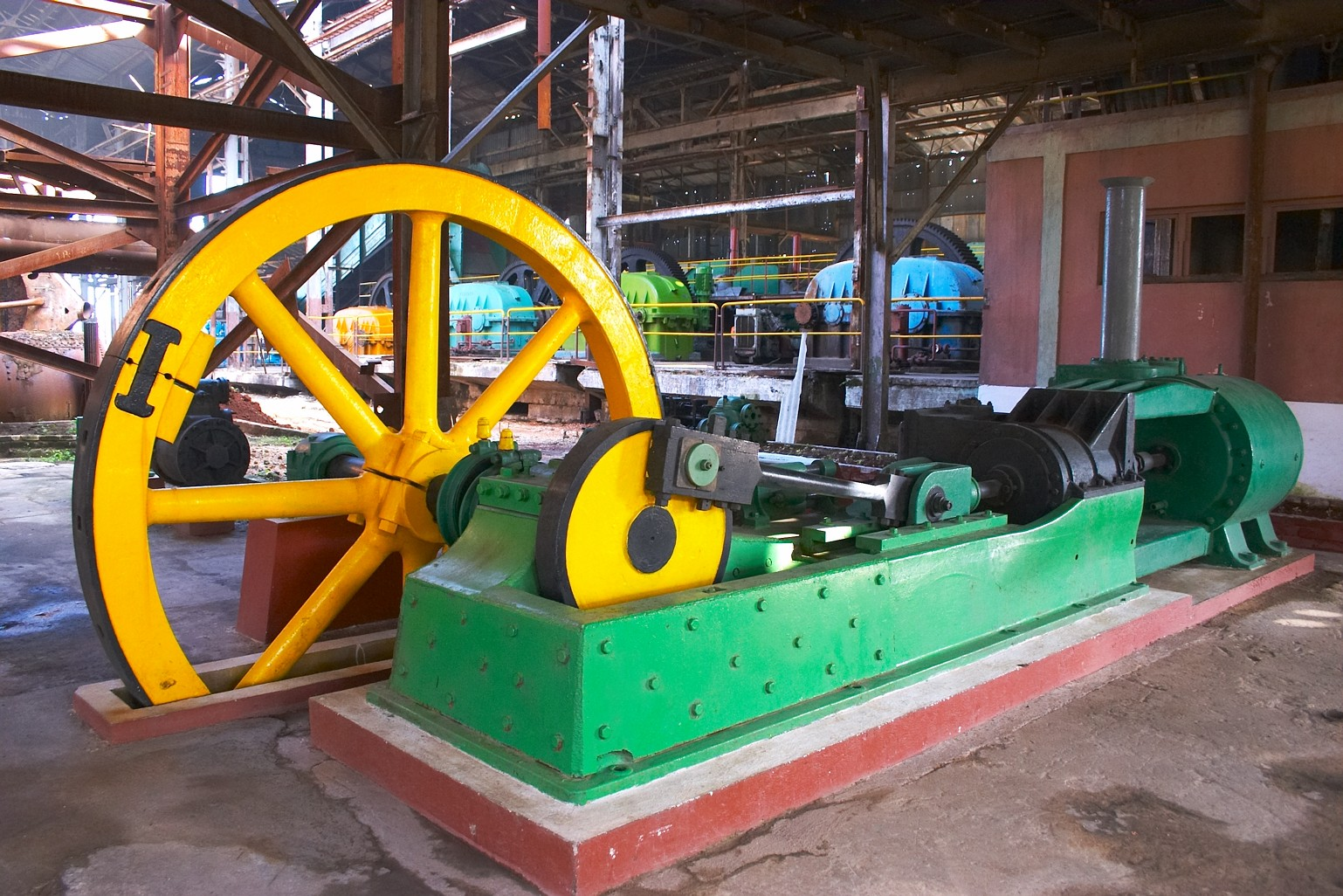 Old sugar mill and steam locomotives museum in the José Smith Comas, a Cuban village of the municipality of Cárdenasy, Matanzas Province